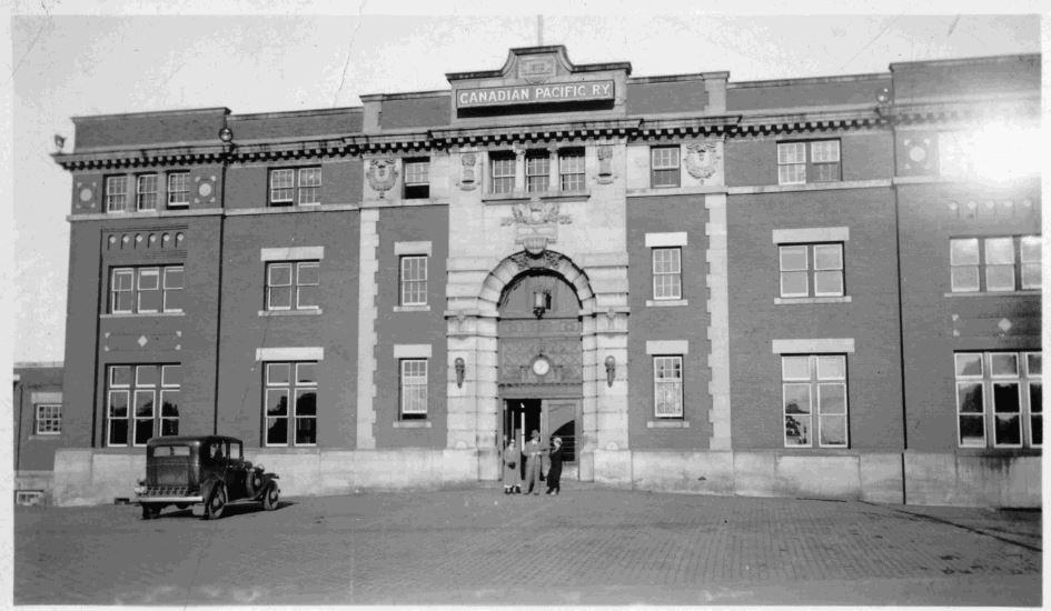 This photograph shows a small group standing in front of the entrance to the Canadian Pacific Railway station in Fort William. A car is parked outside. The building still exists on Syndicate Avenue. Accession No.: 982.1.100